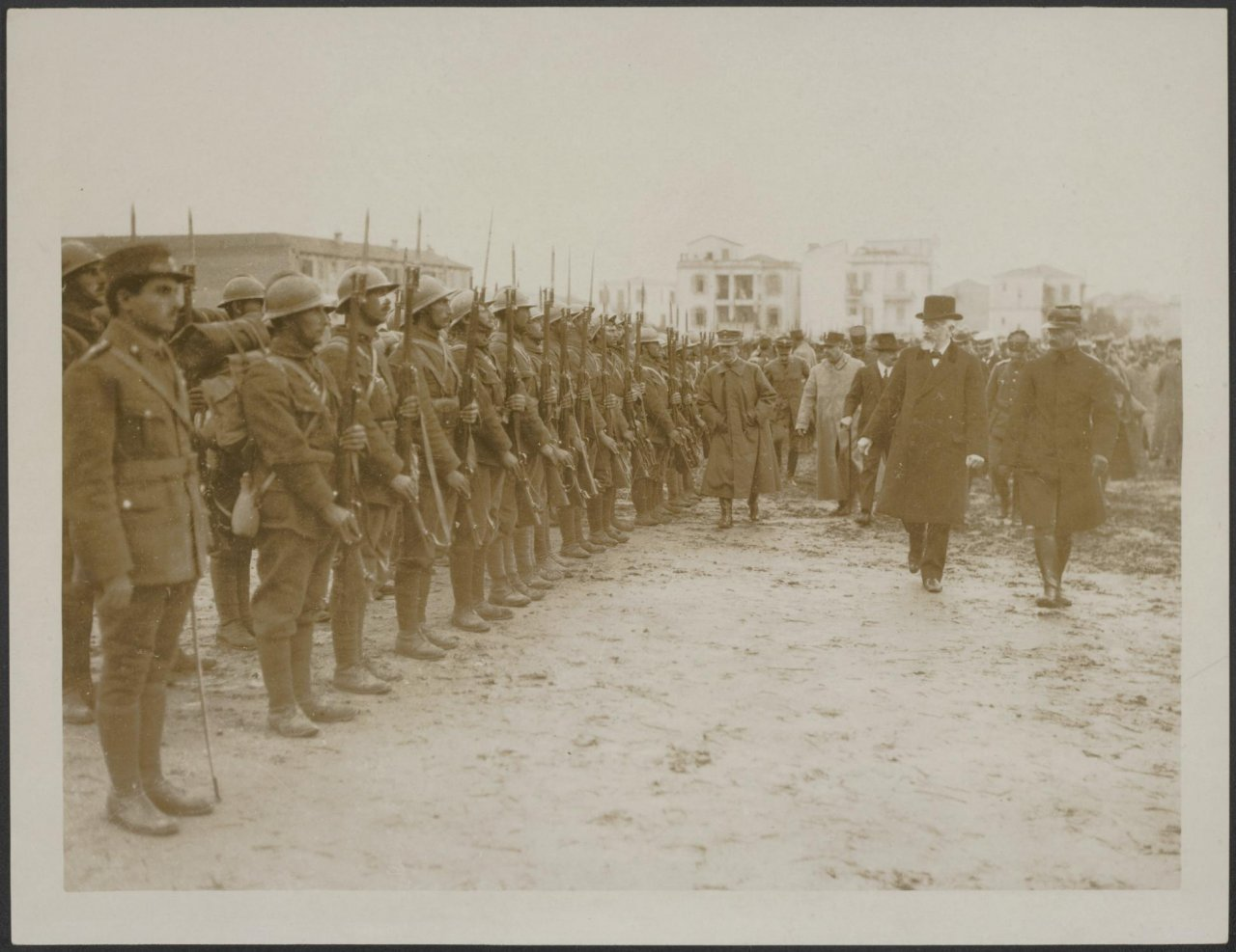 Venizelos reviewing a Greek regiment before it marches out of Salonica to meet the Bulgars